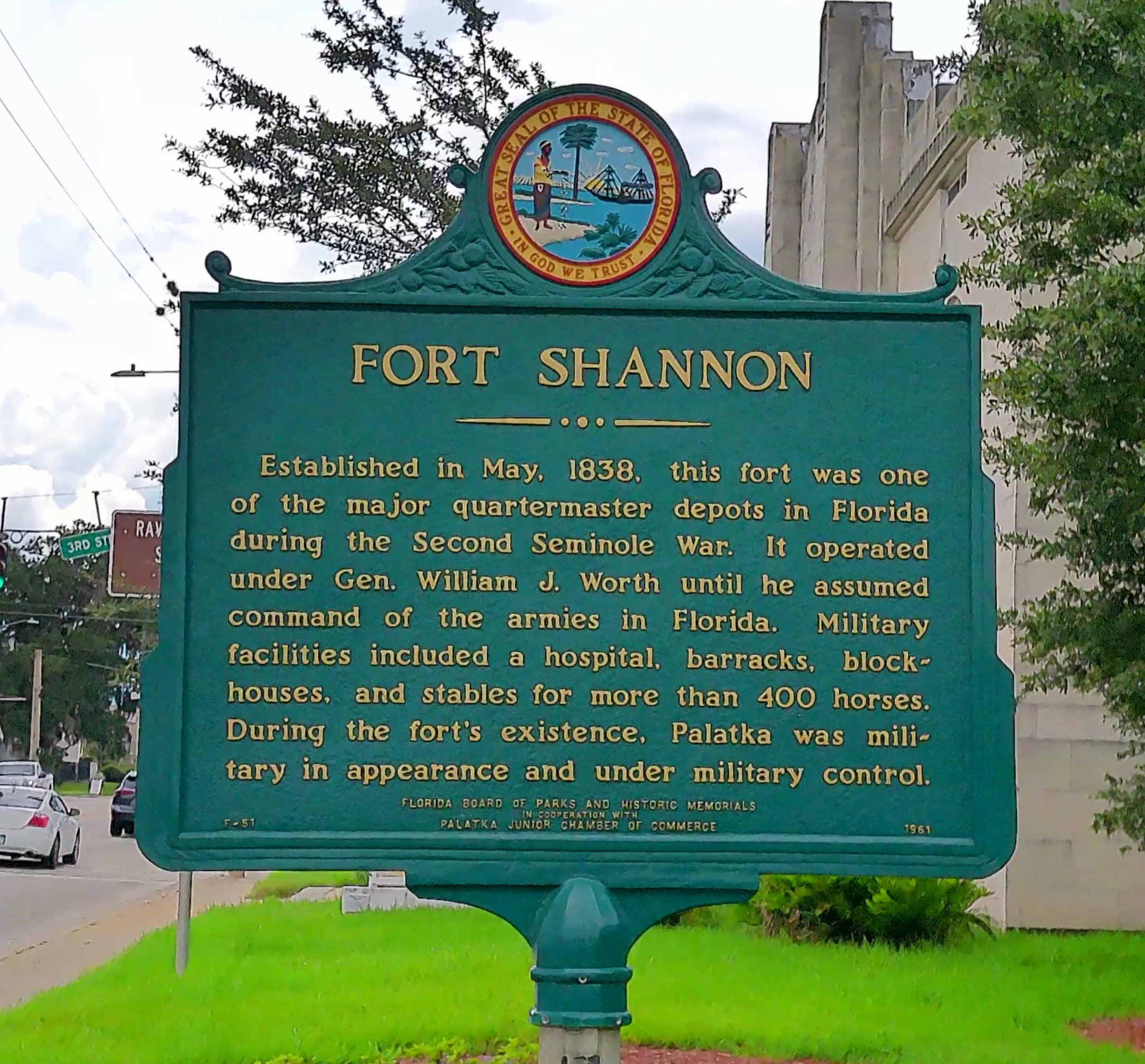 Fort Shannon - (Second Seminole War fortification) - Historical Marker East Side